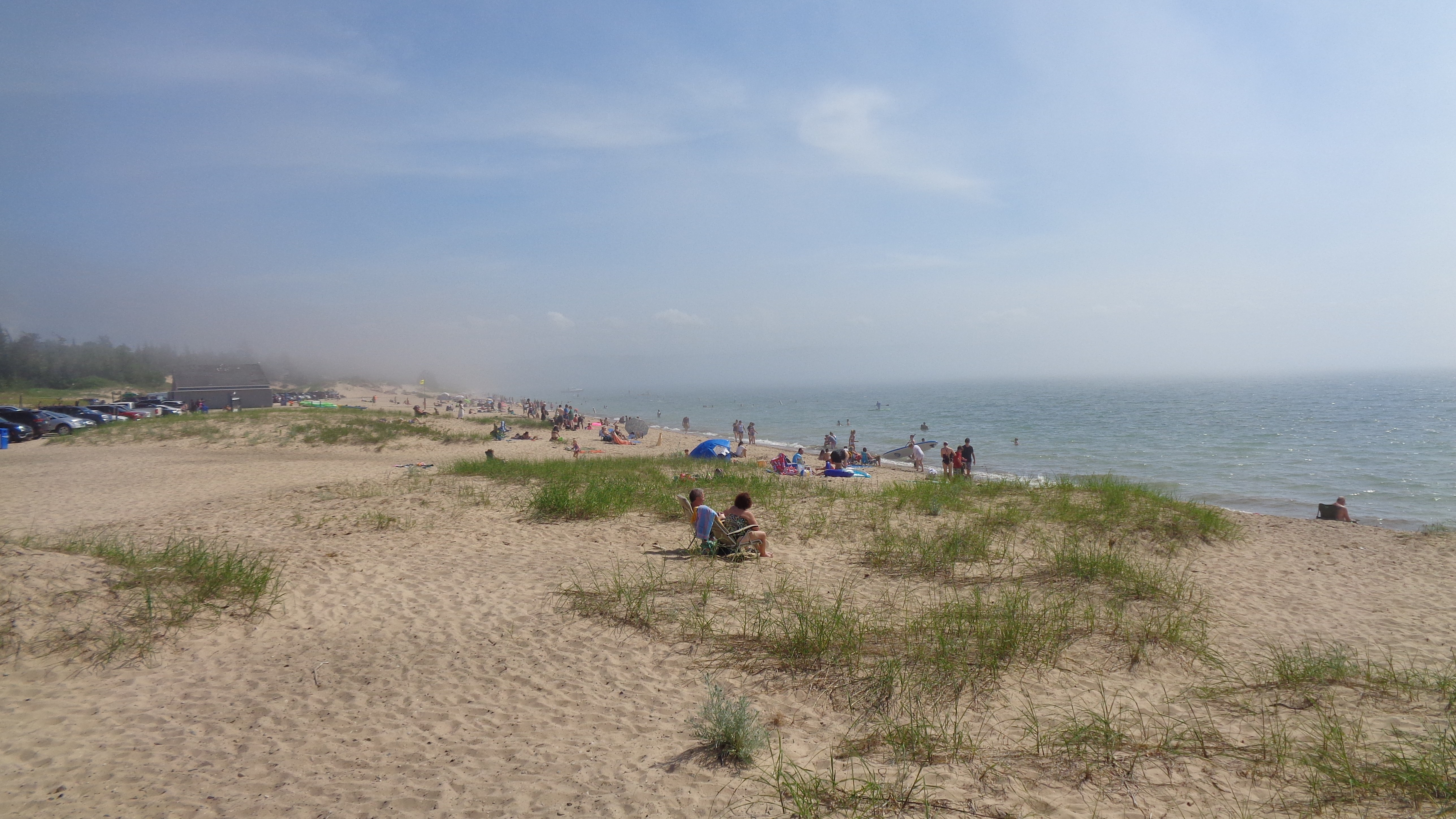 Depicted place: Petoskey State Park